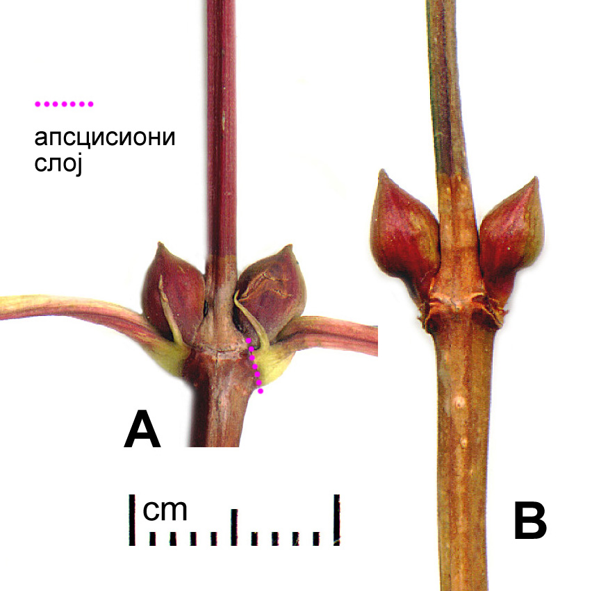 Viburnum nodes before (A) and after (B) abscission